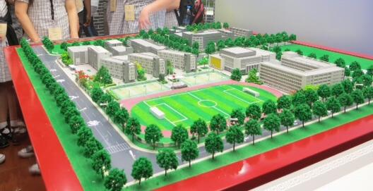 Display of Nanjing Zhonghua High School Campus (2014-Sep-16)